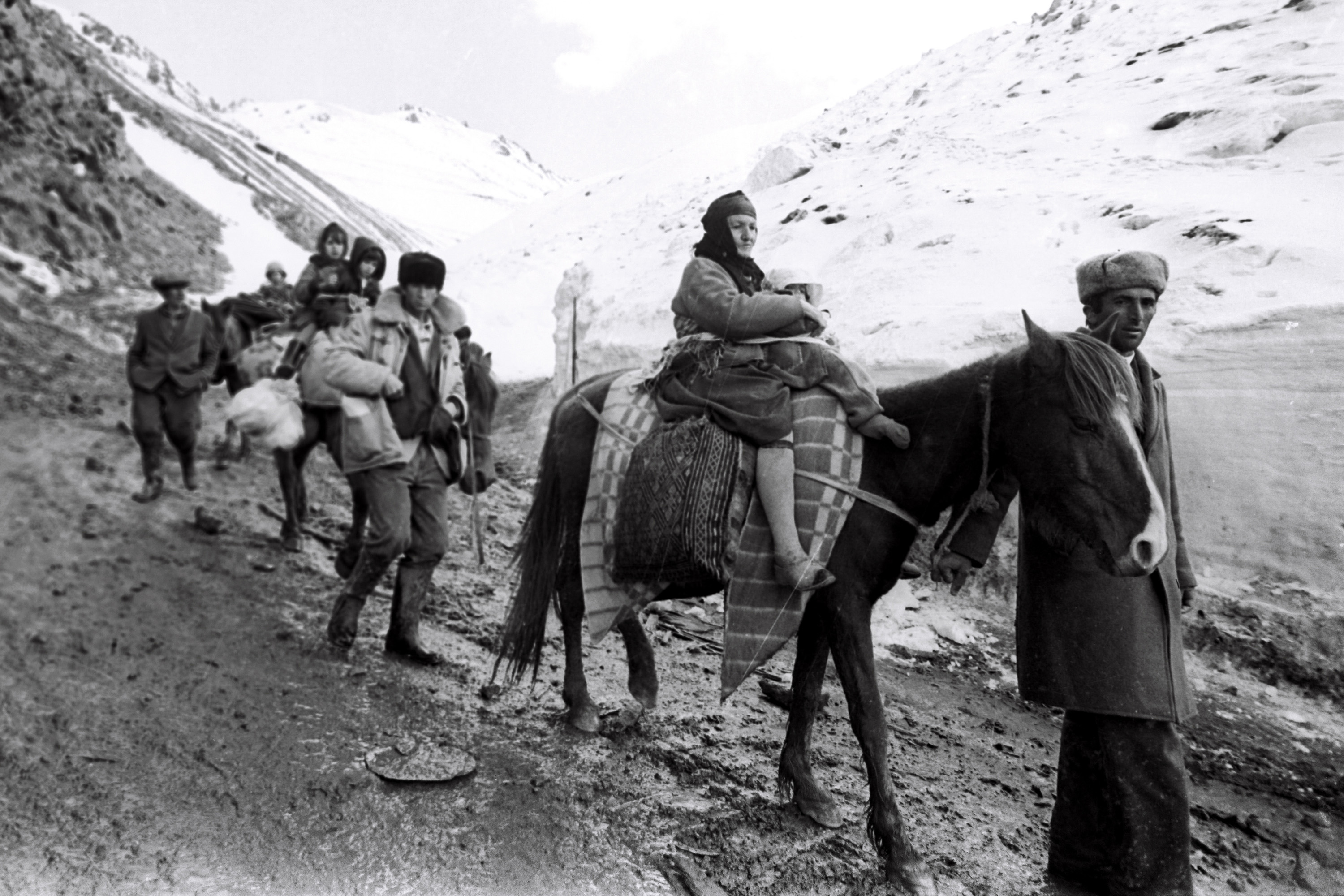 Azerbaijani refugees from Kalbajar. Kalbajar Rayon, Murovdag.